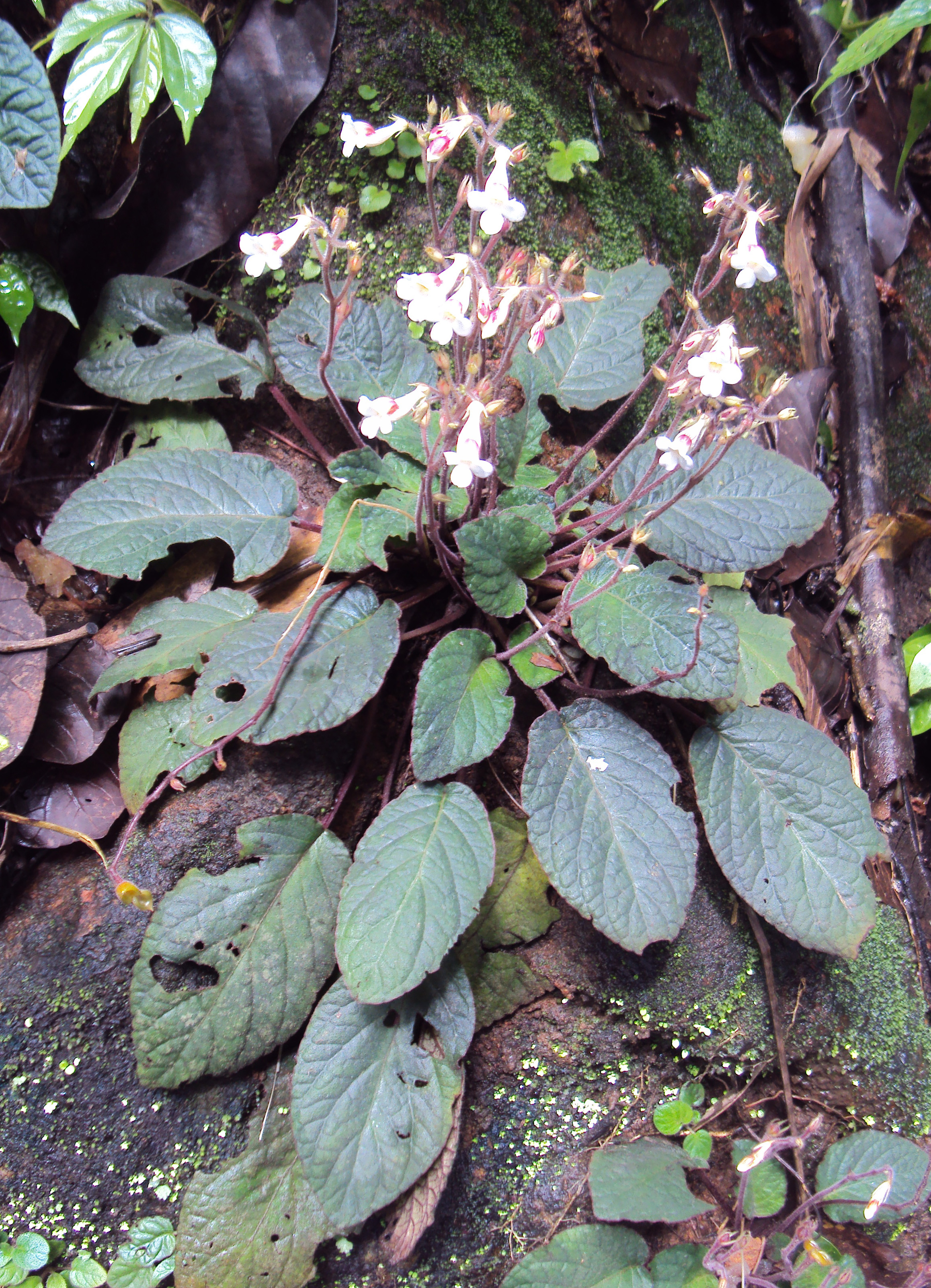 Jerdonia indica